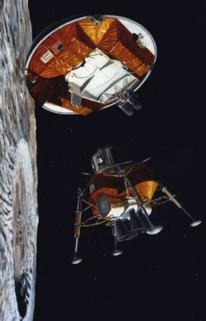 FLO Alternate Habitat